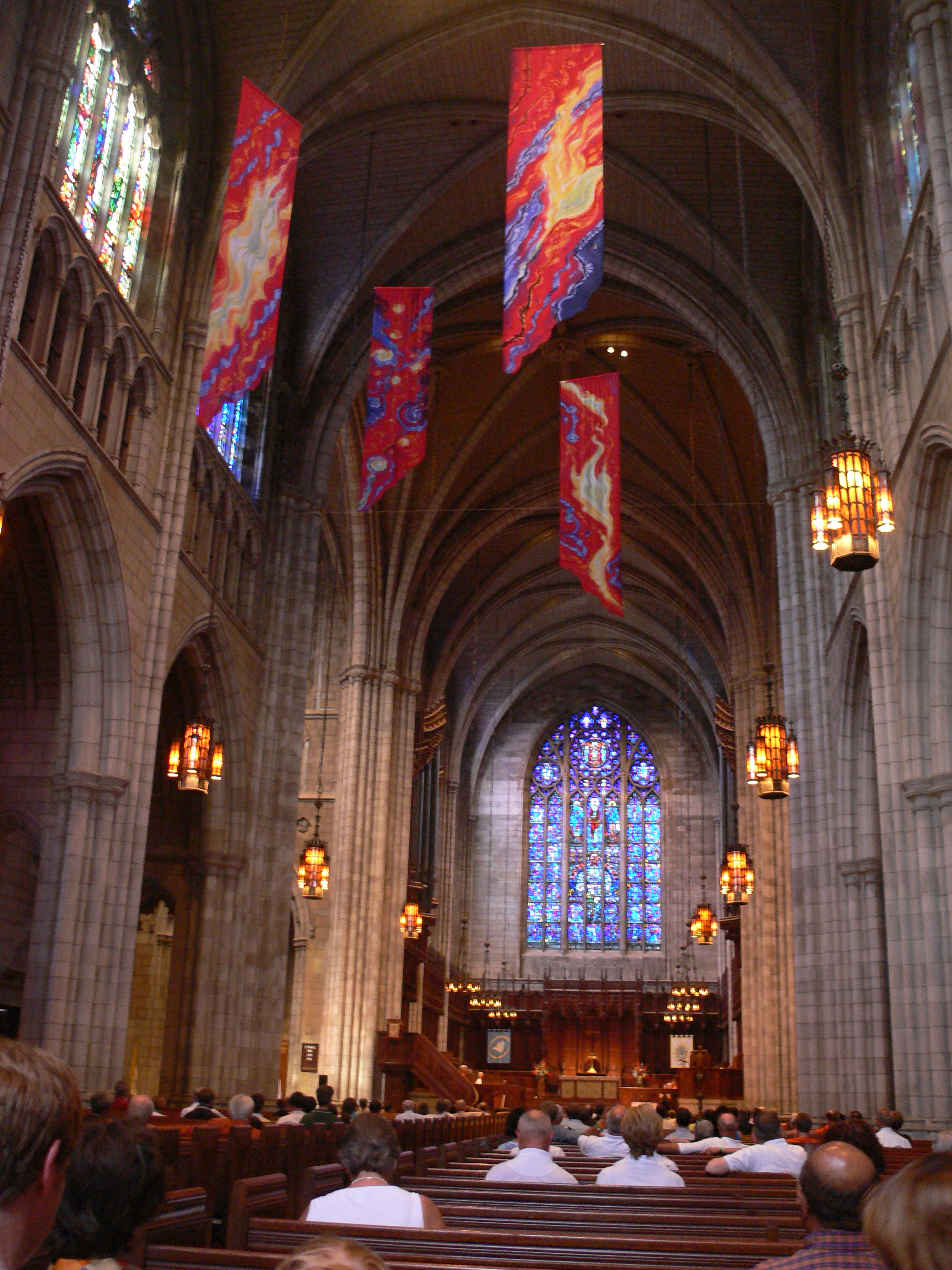 Princeton University Chapel; Princeton, New Jersey